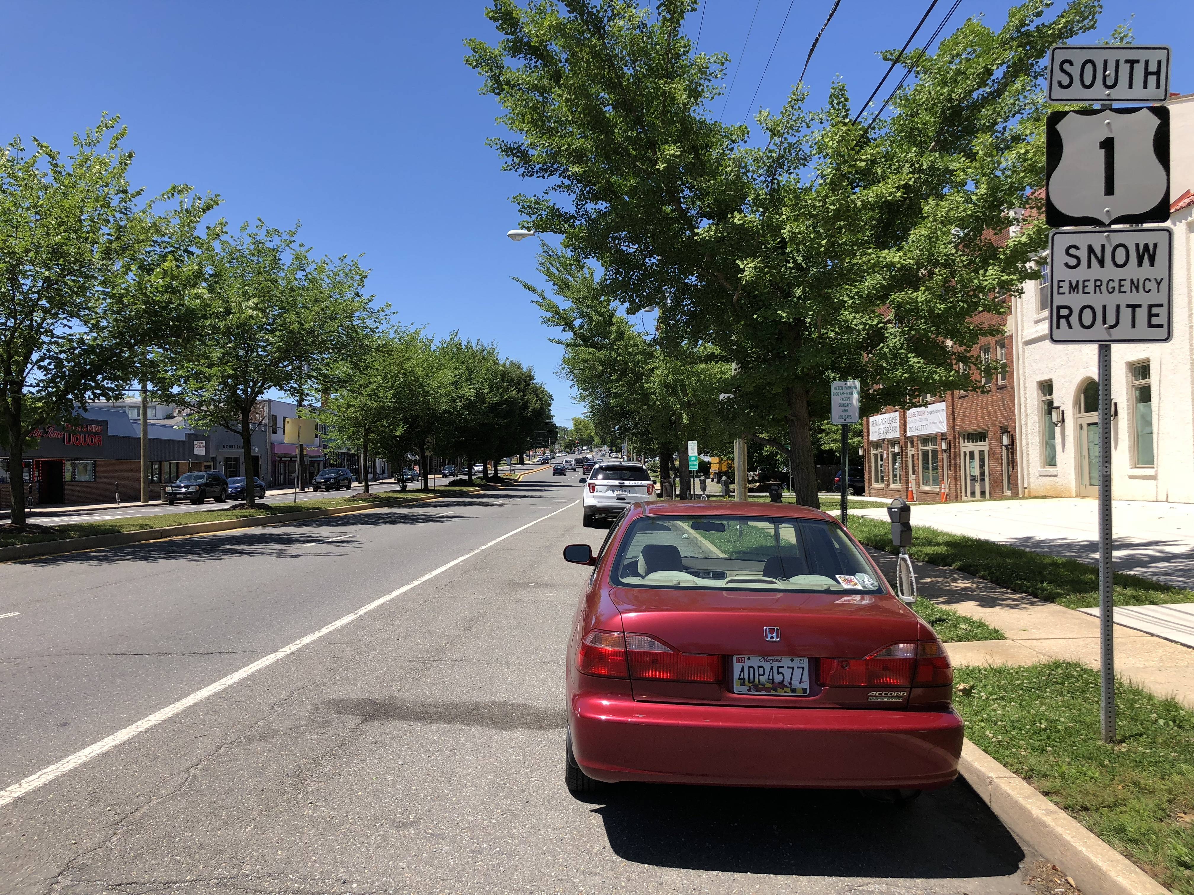 View south along U.S. Route 1 (Rhode Island Avenue) at Perry Street and 34th Street in Mount Rainier, Prince George's County, Maryland